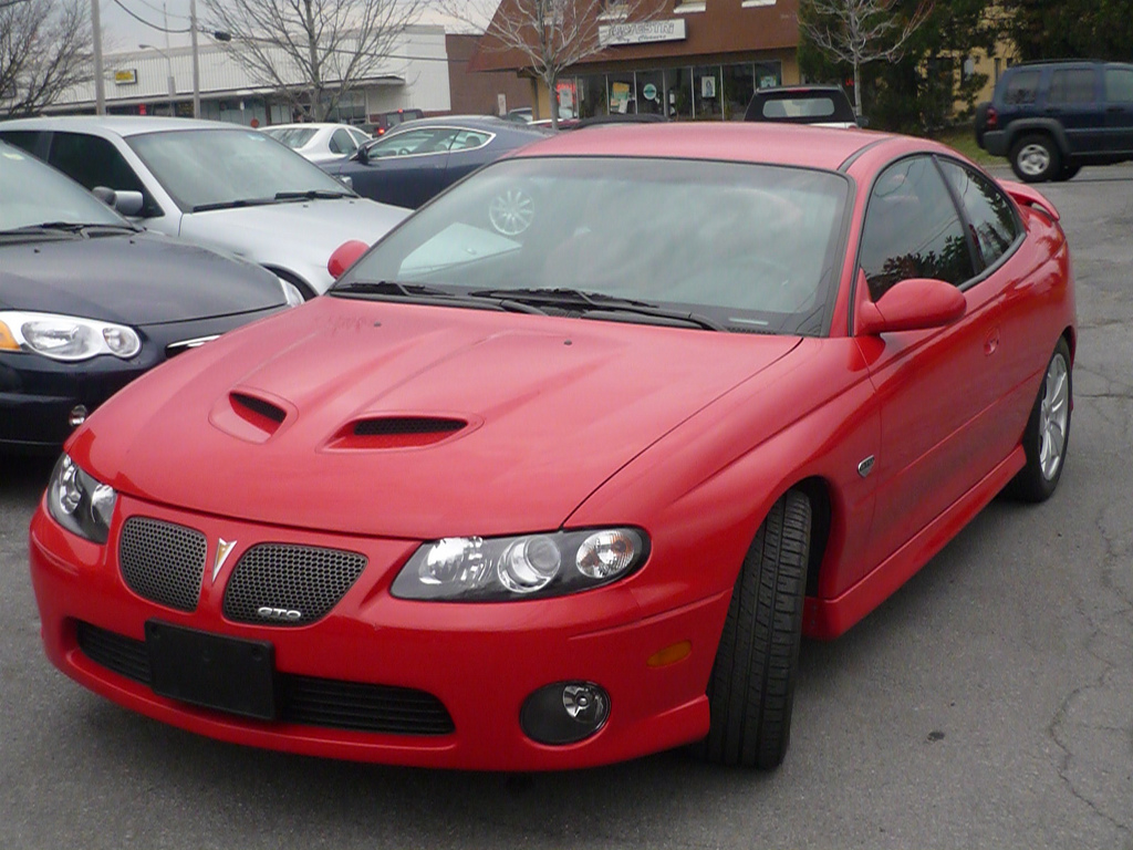 2006 Pontiac GTO coupe, photographed in the United States.